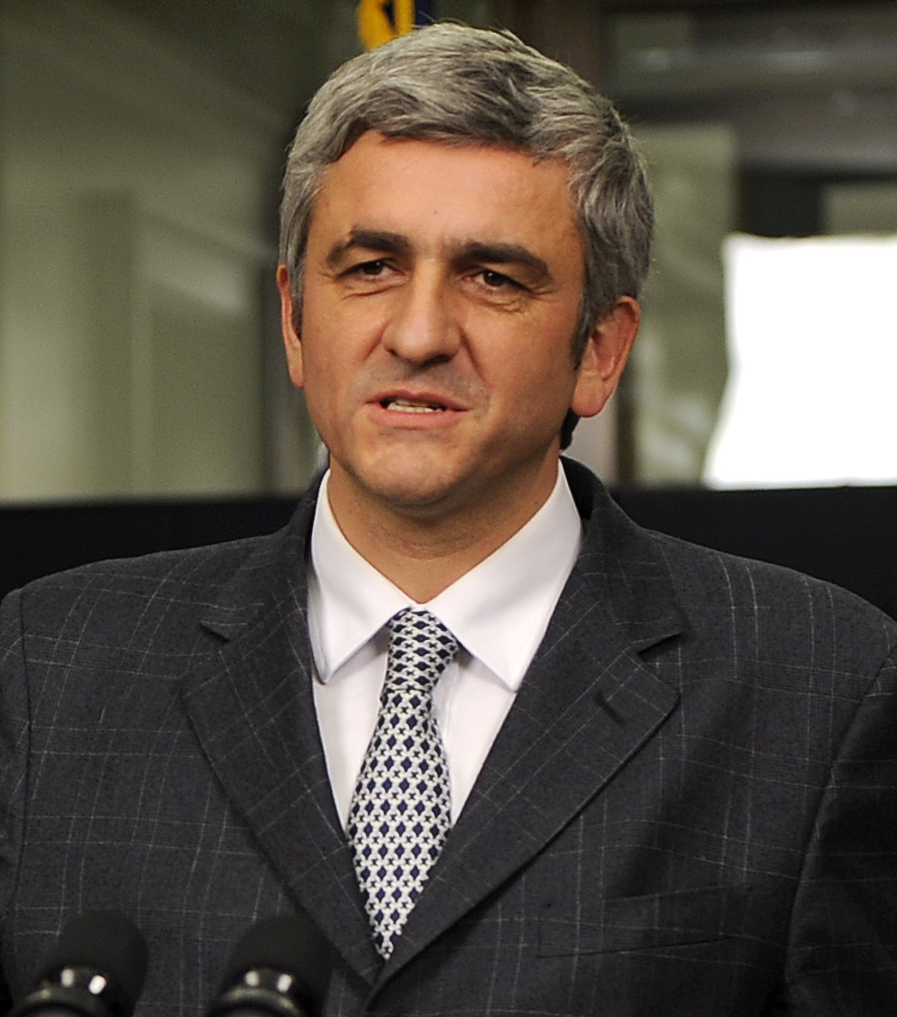 French Minister of Defense Hervé Morin during Morin's first visit to the Pentagon as the defense minister, Jan. 31, 2008.